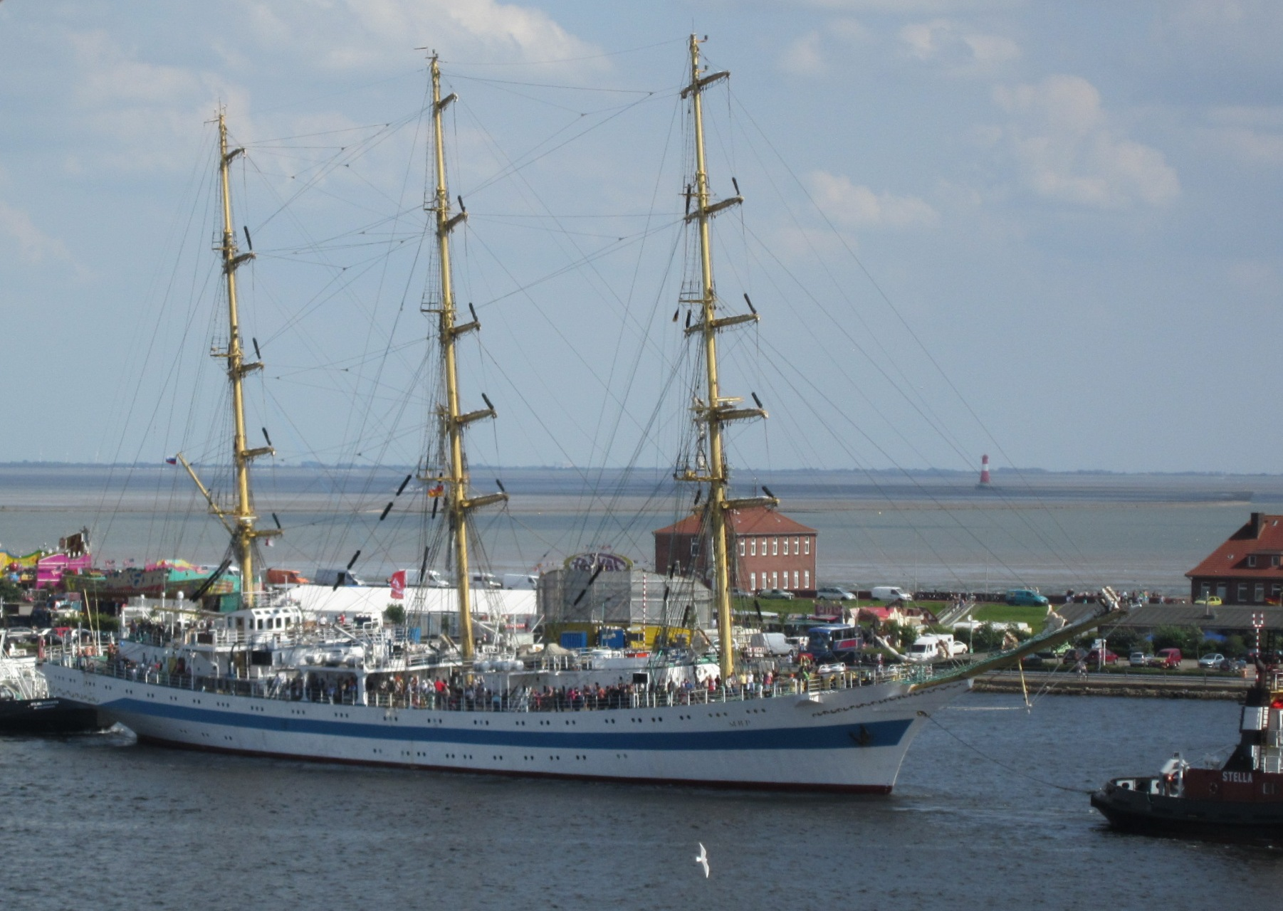 "Großer Hafen" and Southern Beach in Wilhelmshaven; in the background the Jade Estuary, in the foreground the Russian ship "Mir"